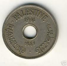 Mandate Palestine money